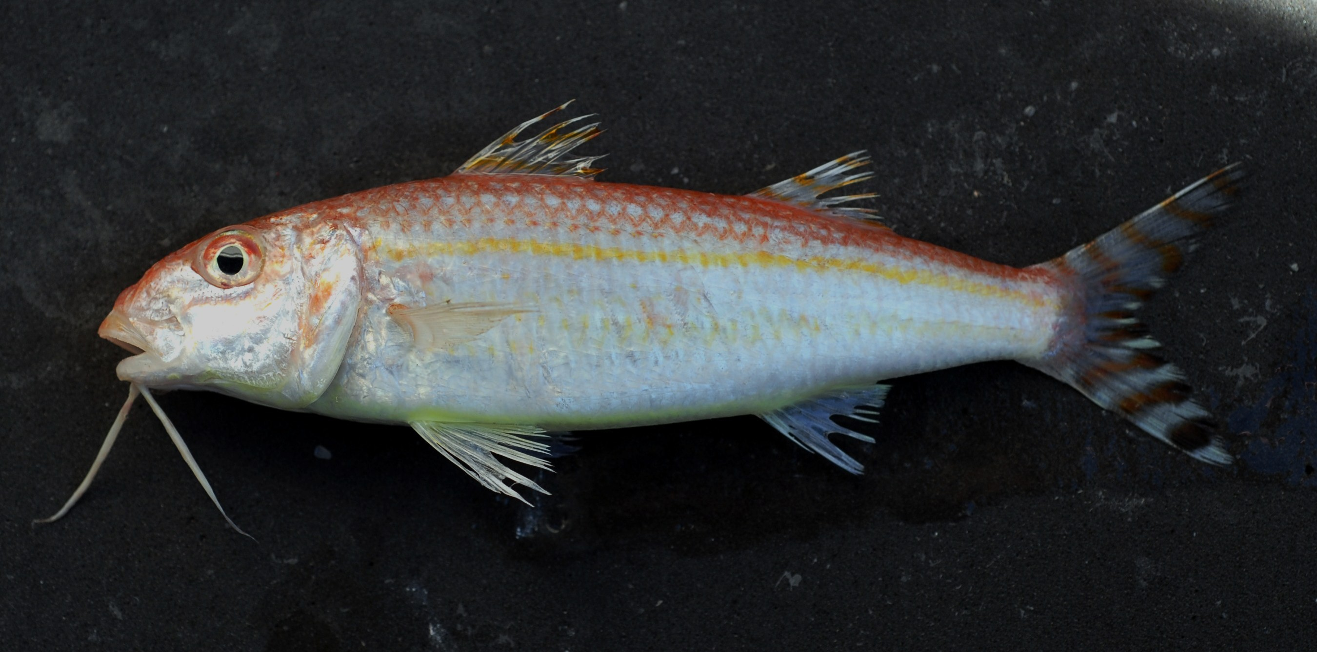 Dwarf goatfish ( Upeneus parvus ). Gulf of Mexico.